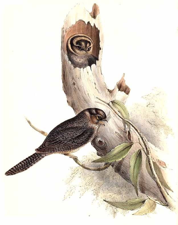 603_aegotheles